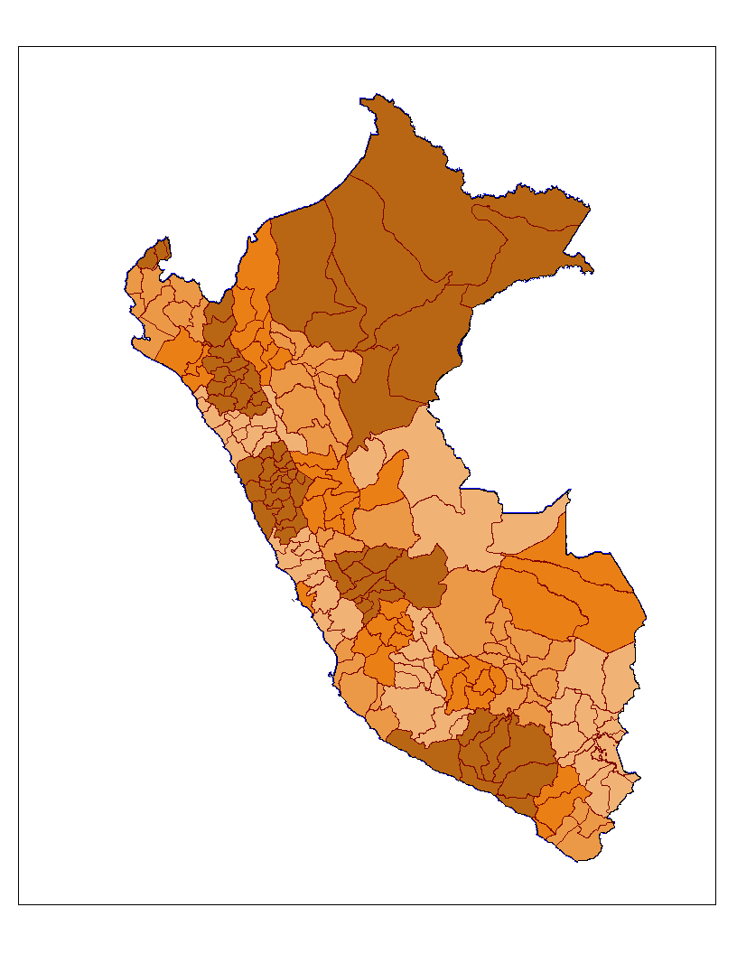 Provinces of Peru per Region (map, brown).